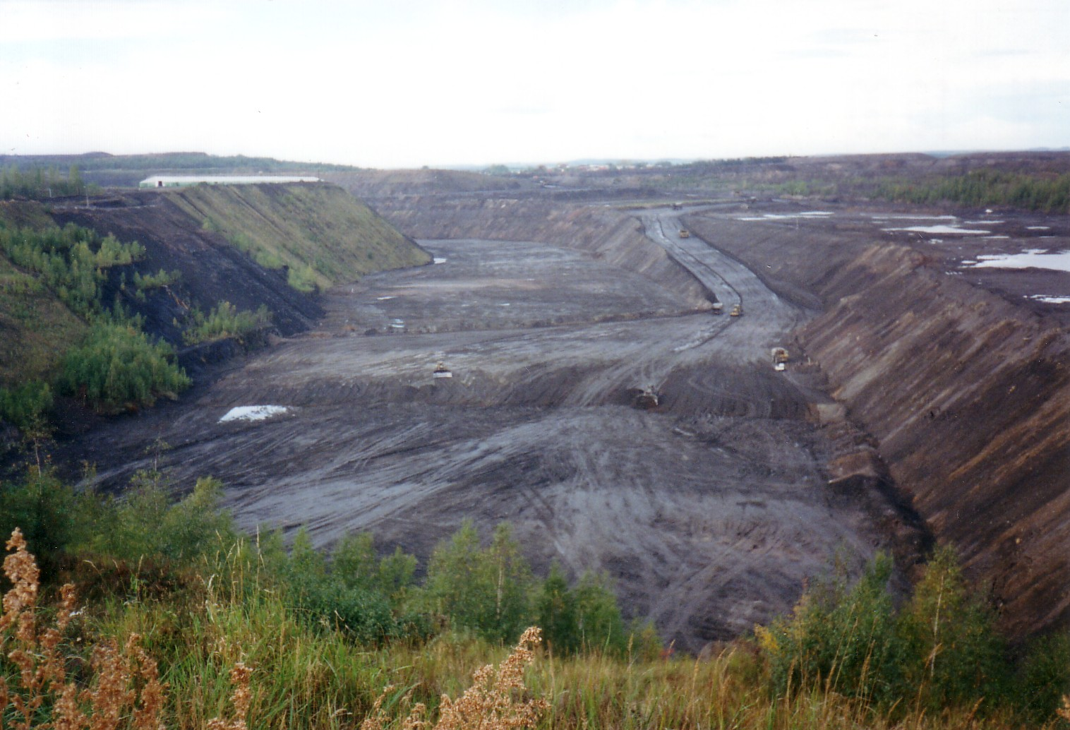 Lichtenberg open pit mine; Ronneburg, Thuringia, Germany; during EXPO 2000 project.